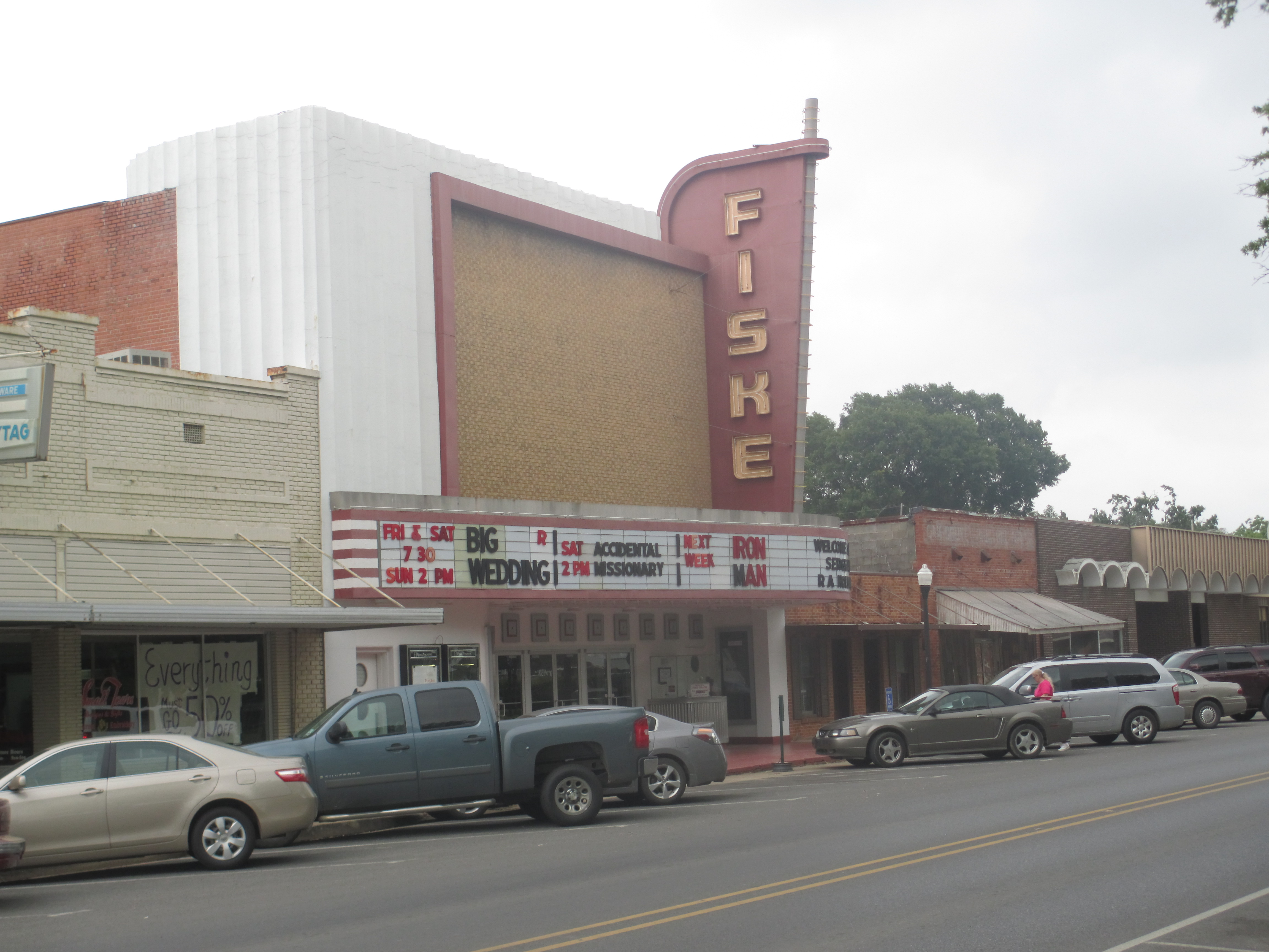 I took photo of Fiske Theatre in Oak Grove, LA, with Canon camera.